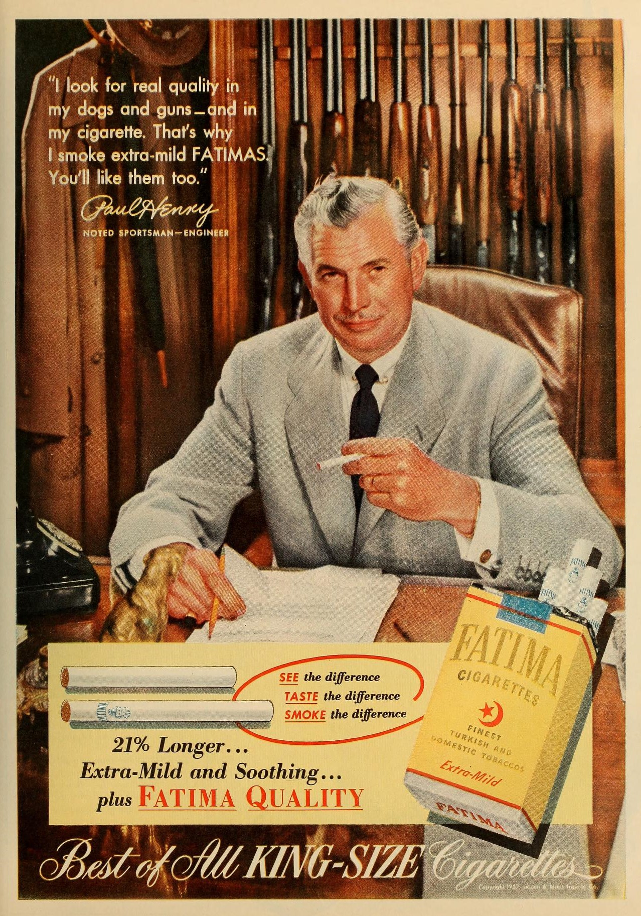 Paul Henry: I look for real quality in my dogs and guns - and in my cigarette .... Fatimas.